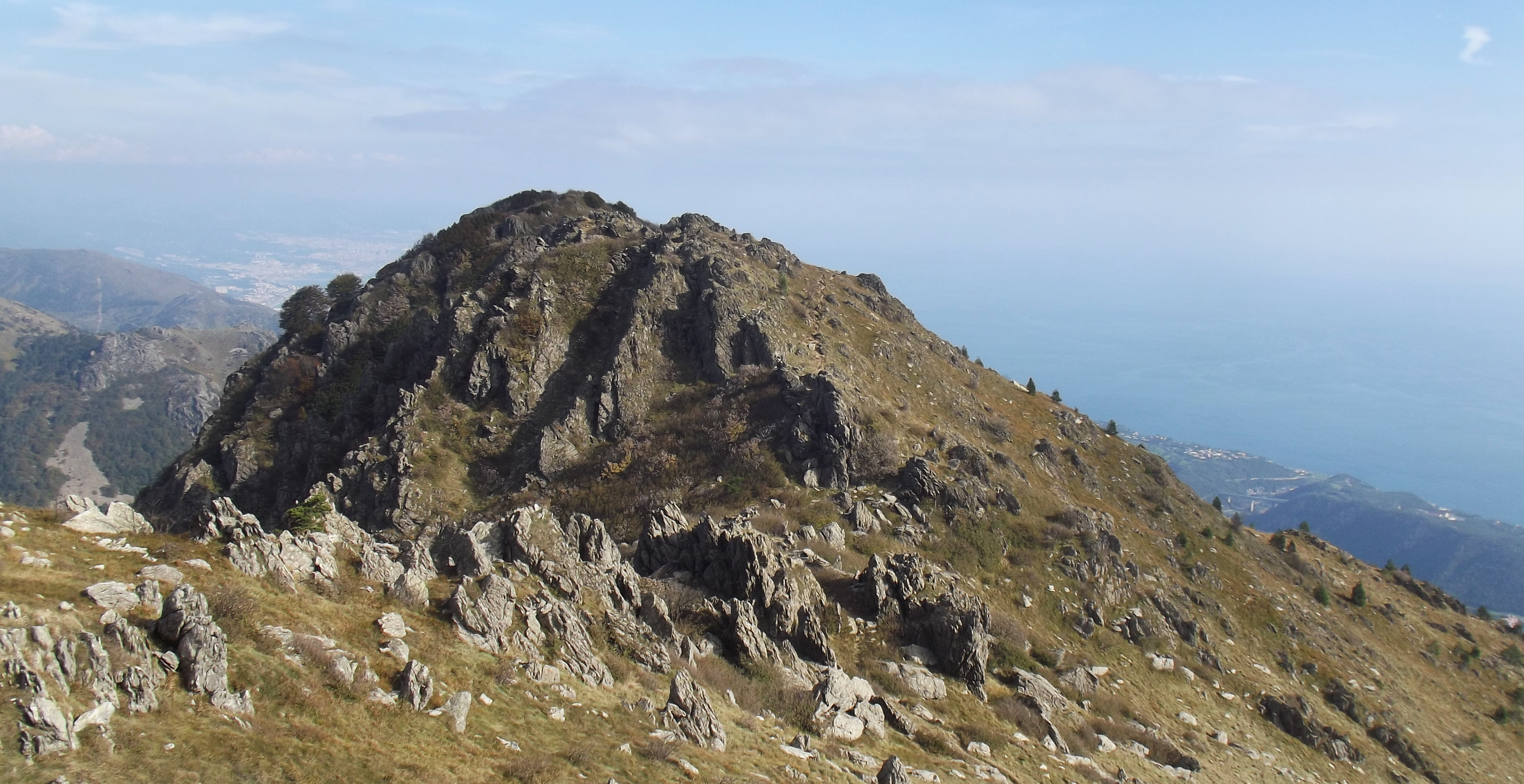 Monte Rama from Cima Fontanaccia (Ligurian Apennines)